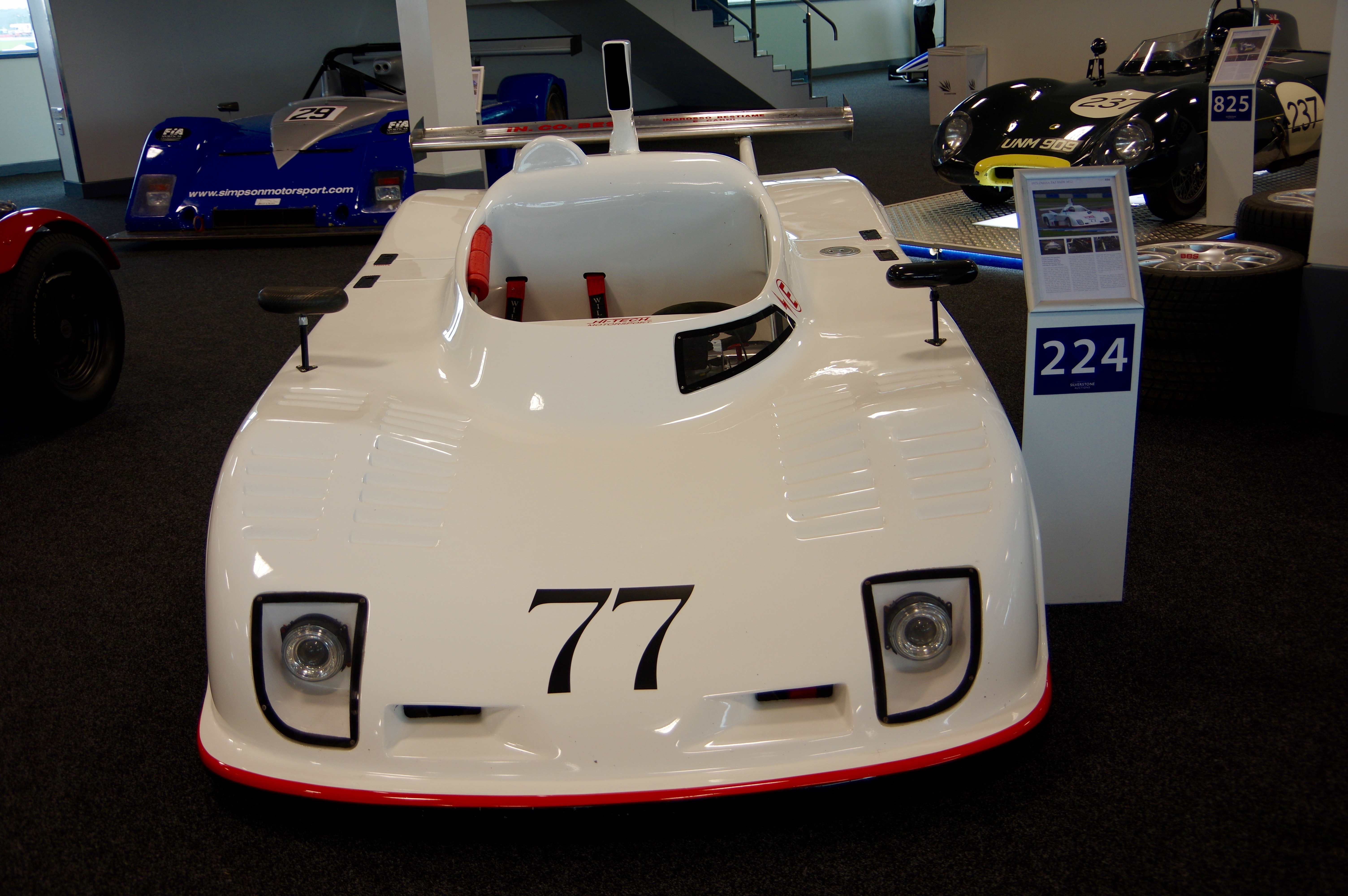 Bonham's Auction, Silverstone Classic 2015 Estimate at Auction: £130,000 to £160,000